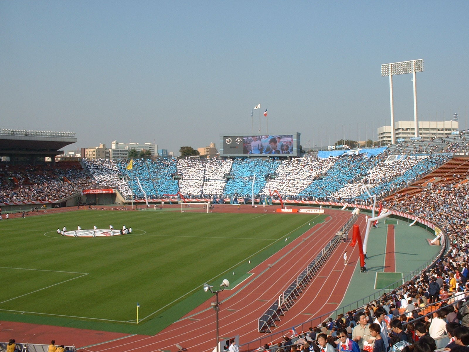 Nabisco Final 2001